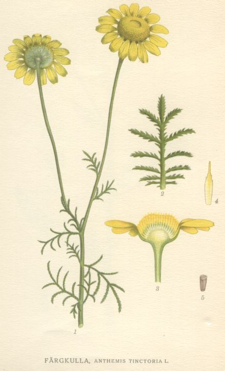 Anthemis tinctoria